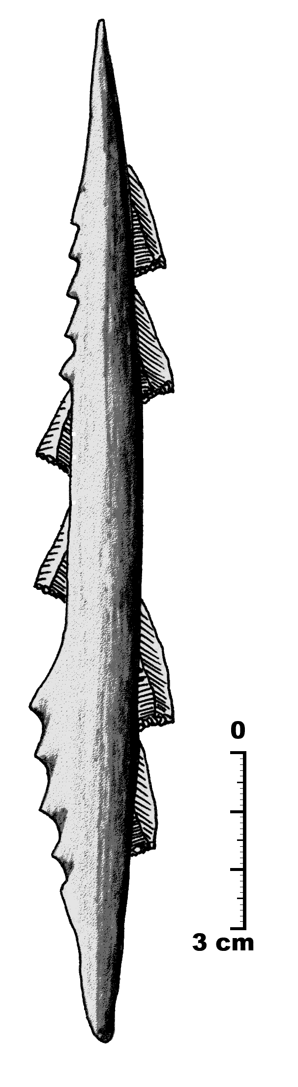 Bone harpoon with microliths used as barbs